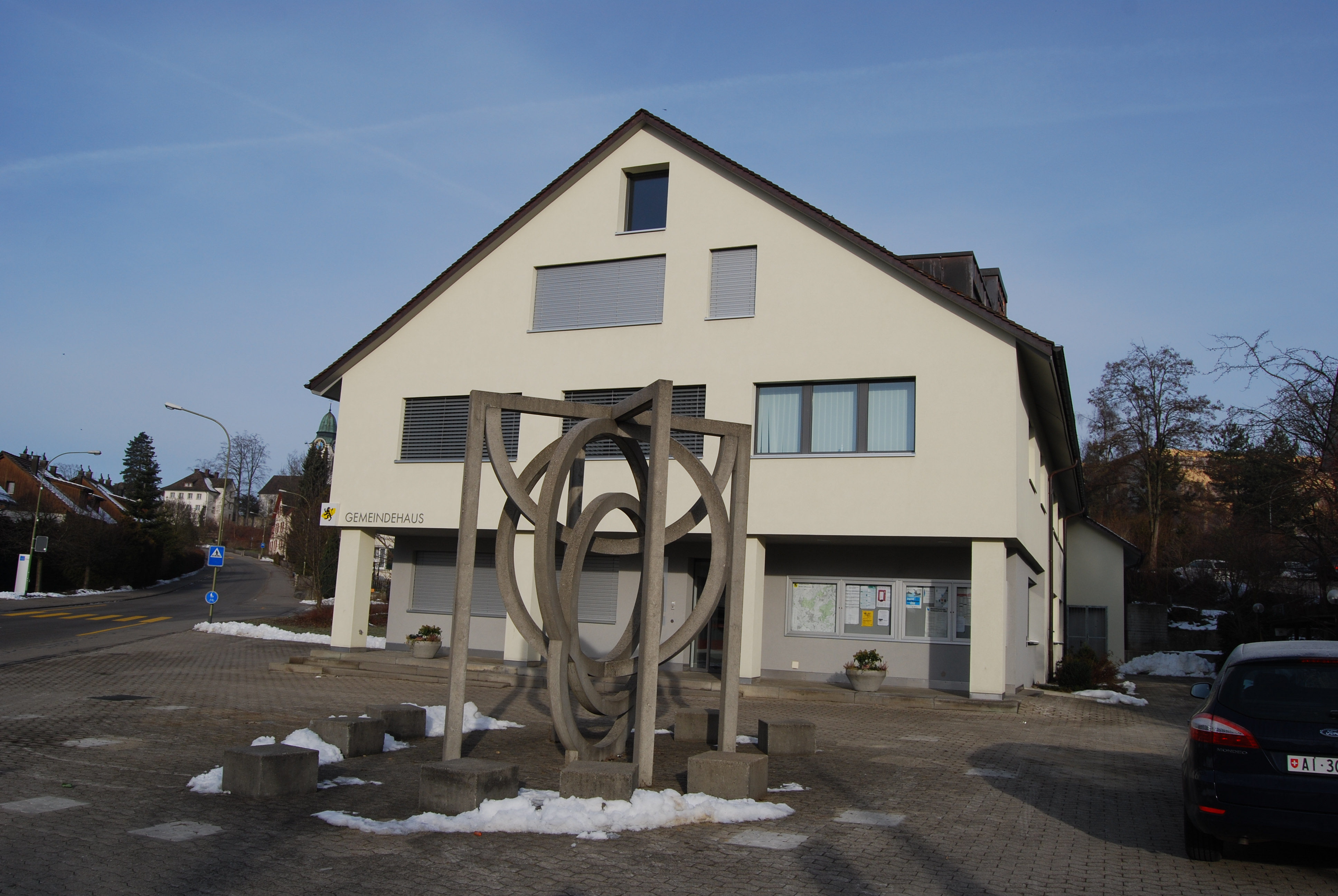 Sclupture before the municipal administration house of Russikon, canton of Zürich, SwitzerlandEsperanto: Skulpturo antauŭ la komunuma domo de Russikon, Kantono Zuriko, Svislando